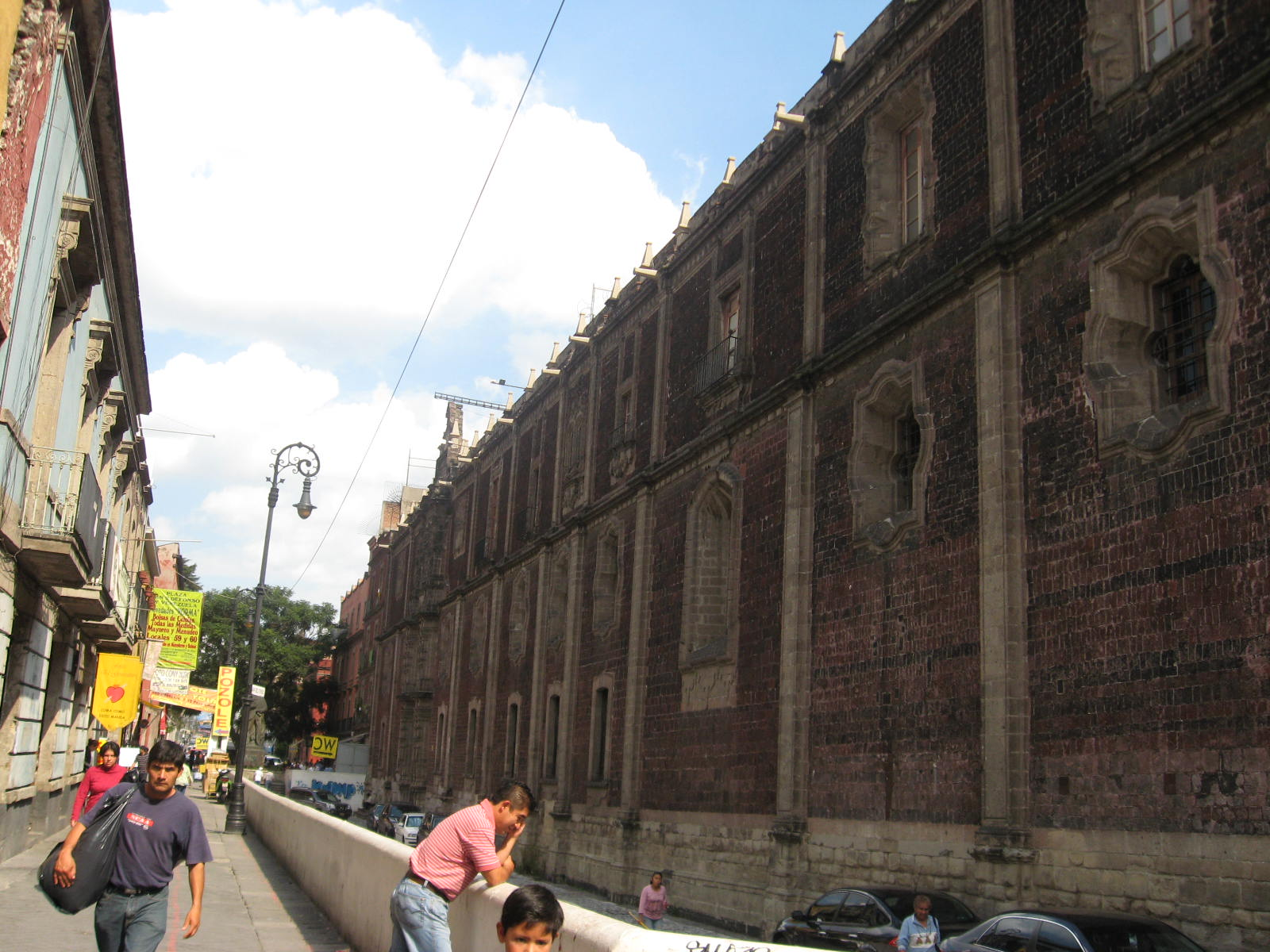 Antiguo Colegio de San Ildefonso (Old College of San Ildefonso) located on Justo Sierra 16 in the Centro of Mexico City